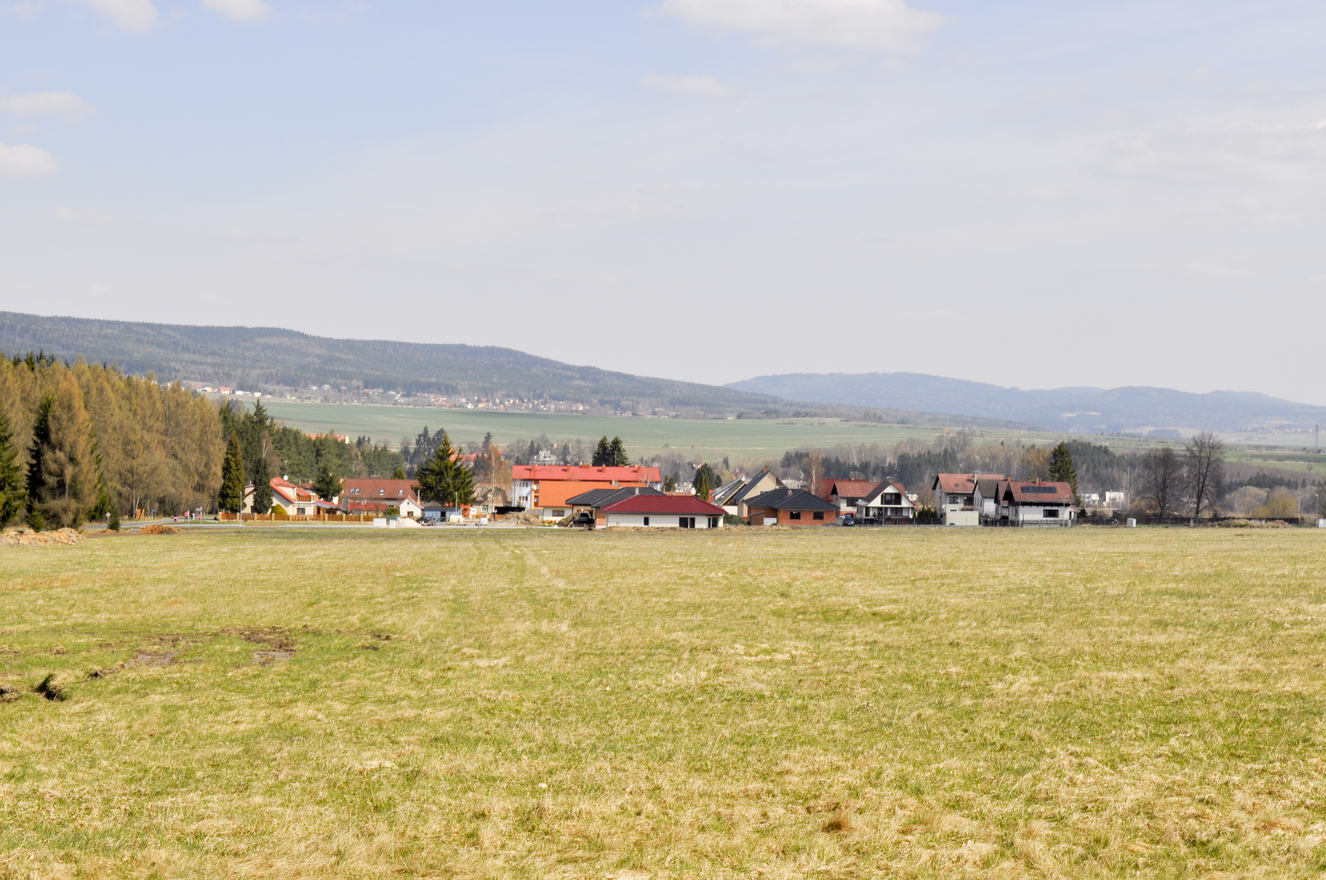 Obecnice - view from the Southwest